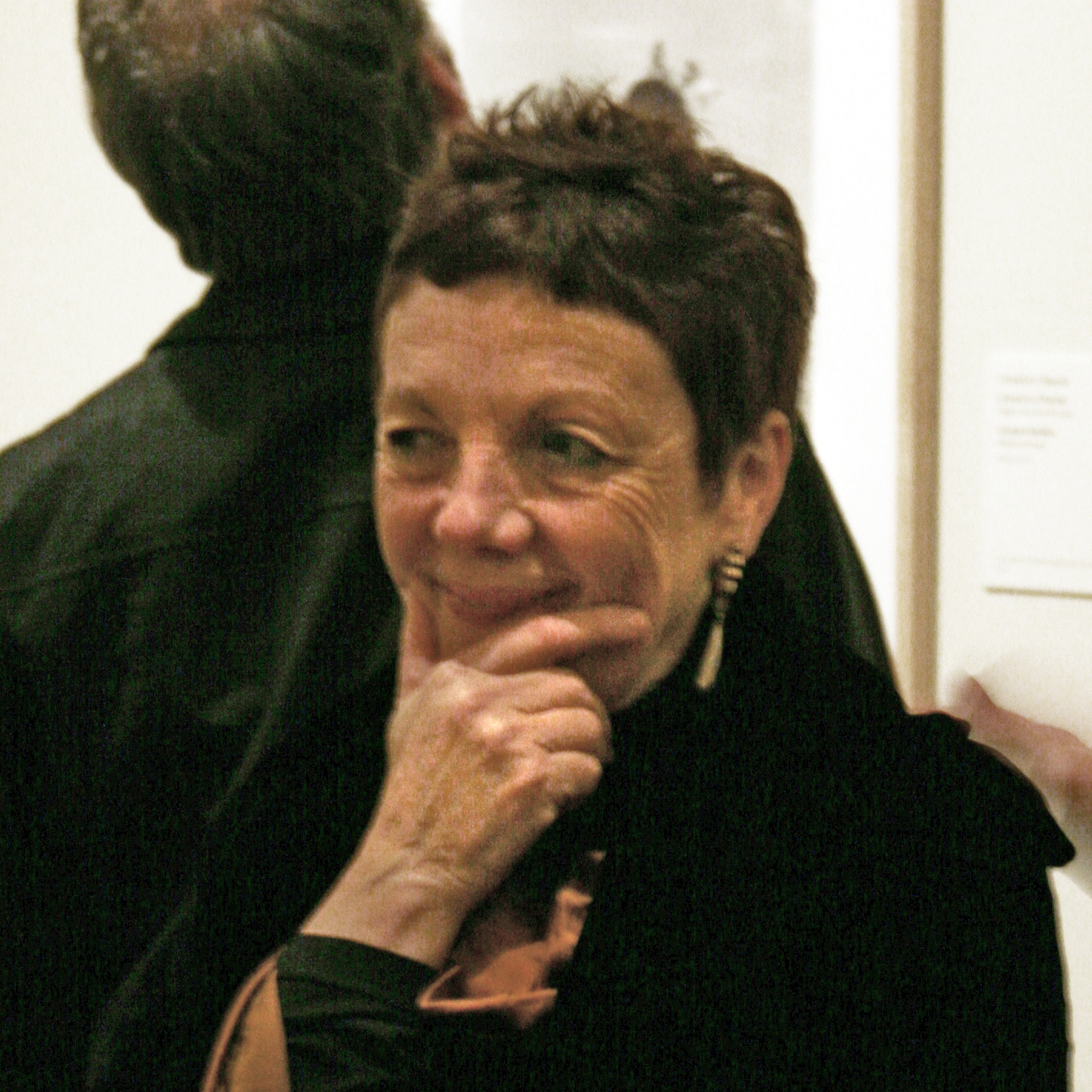 Photographer Graciela Iturbide at the press preview for Danza de la Cabrita (The Goat's Dance) at the Getty Center.